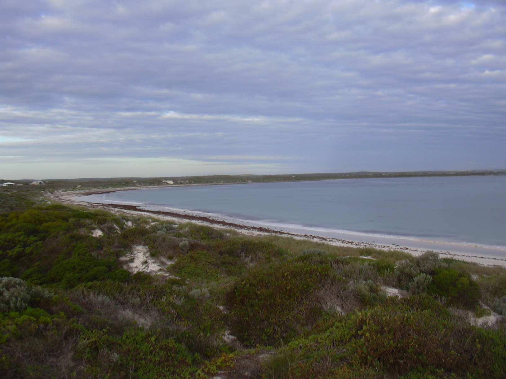 Cervantes, Thirsty point lookout (Hanson Bay), Western Australia